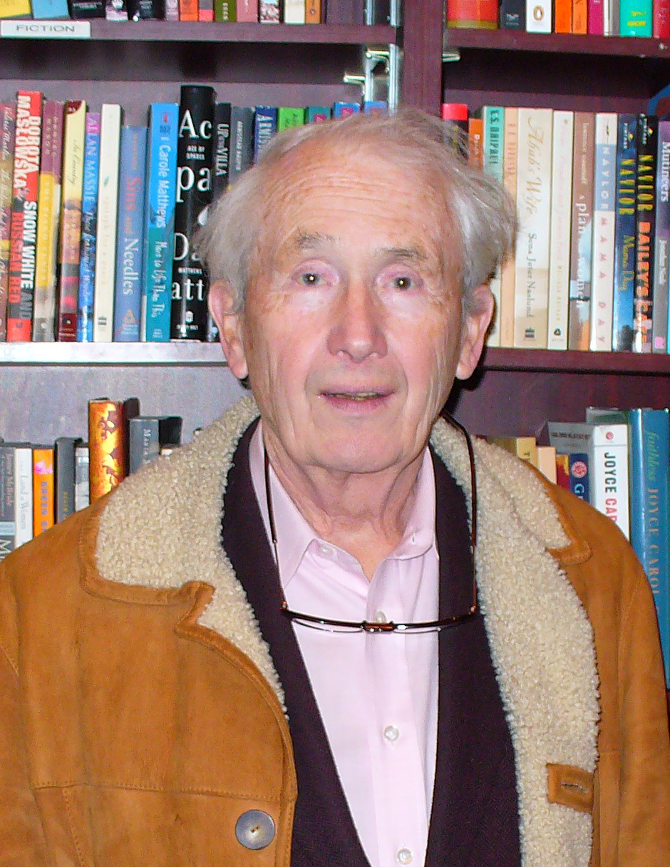 Frank McCourt at New York City's Housing Works bookstore for a tribute to recently-deceased Irish poet Benedict Keily. Photographer's blog post about the death of Frank McCourt and the memory of this photo.